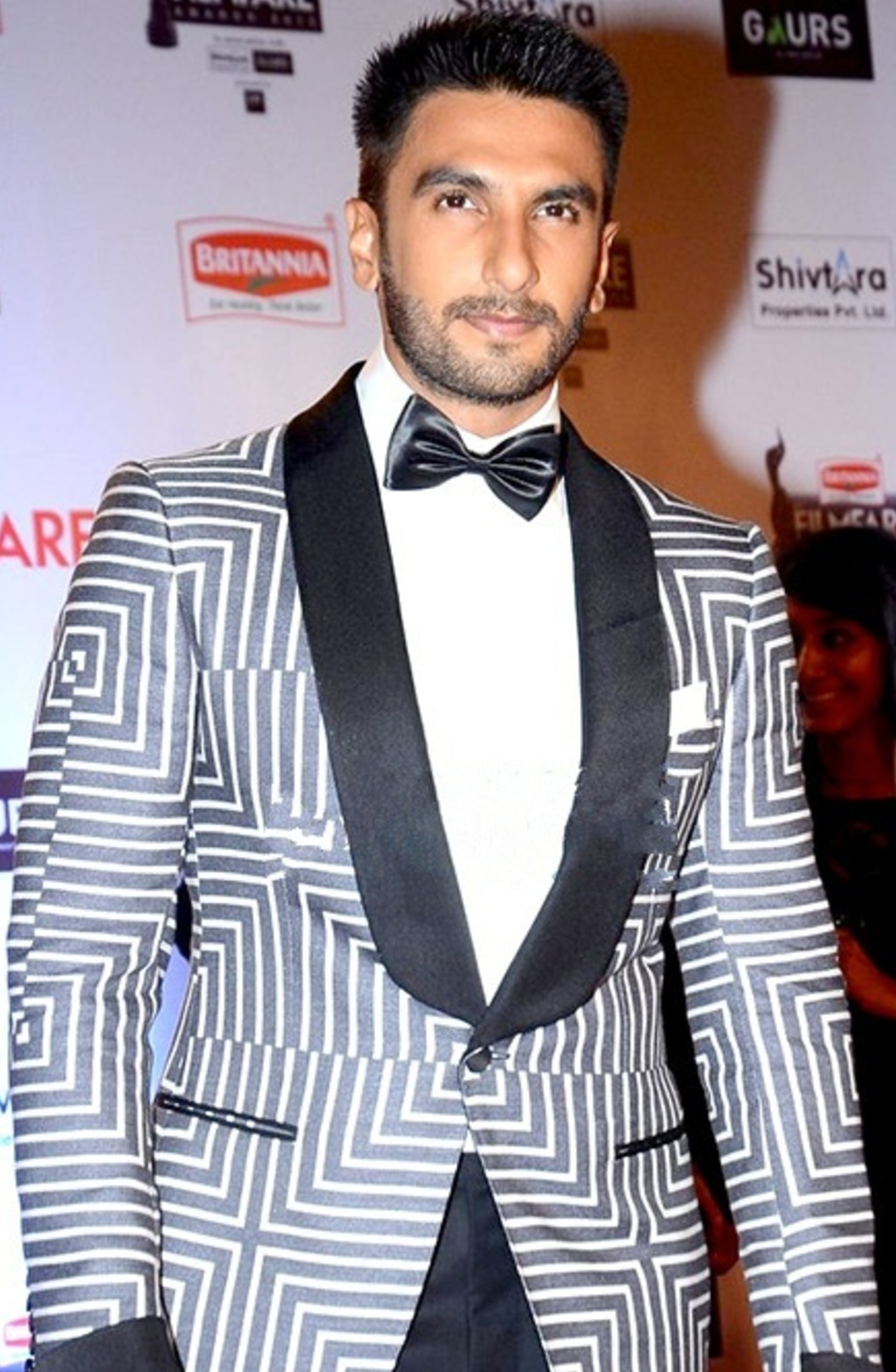 Ranveer Singh at 61st Filmfare awards 2016